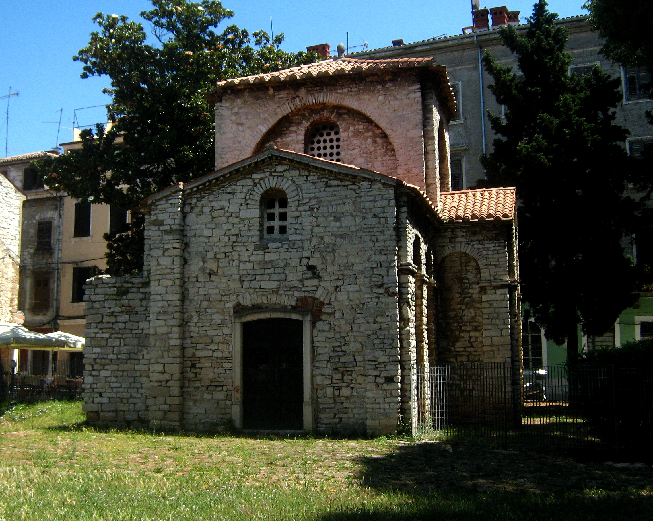 Remaining oratory of Santa Maria Formosa in Pula, Croatia, built in 6th century AD.